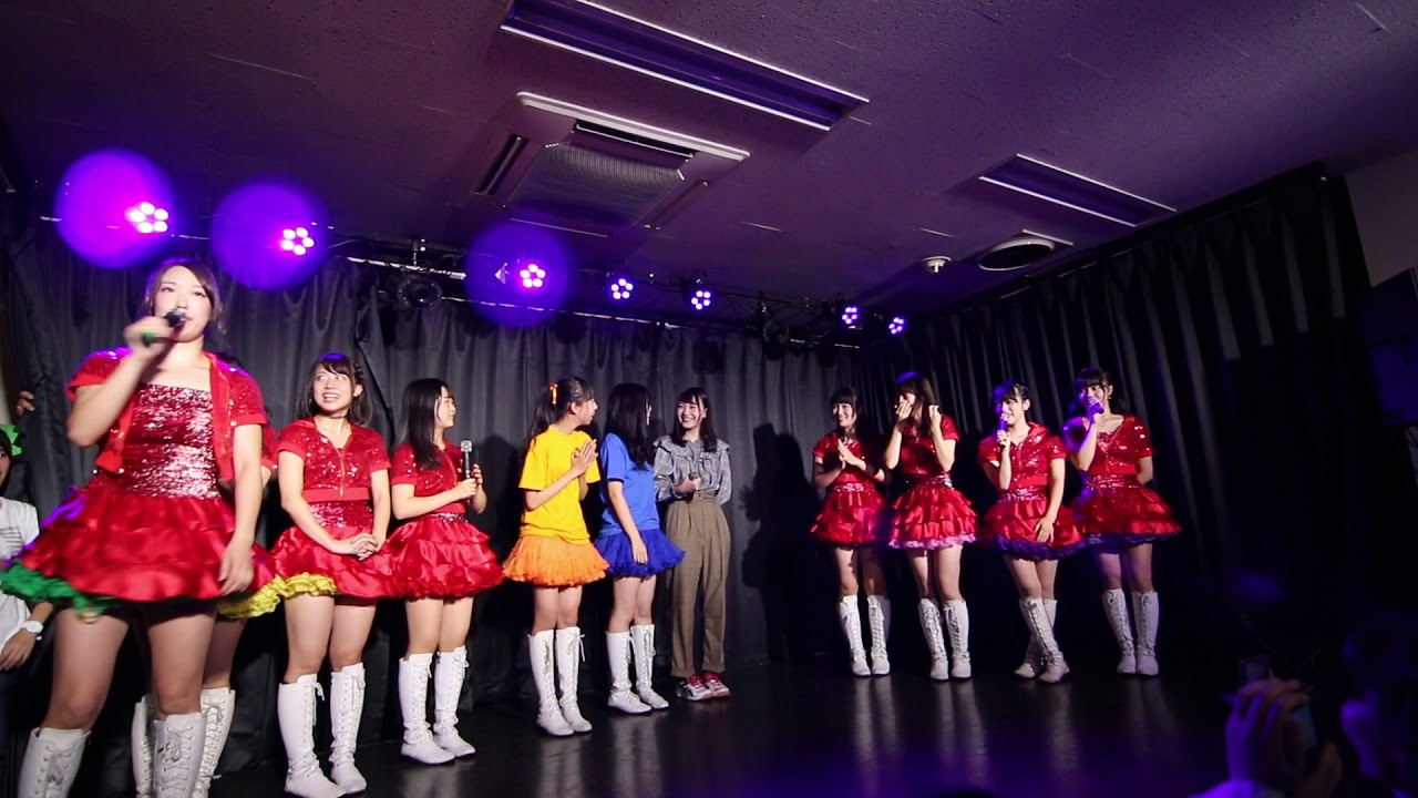 ライブプロホールＺ